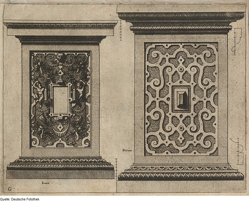 Original image description from the Deutsche Fotothek Architektur & Basis & Postament & Piedestal & Torus & Ornament